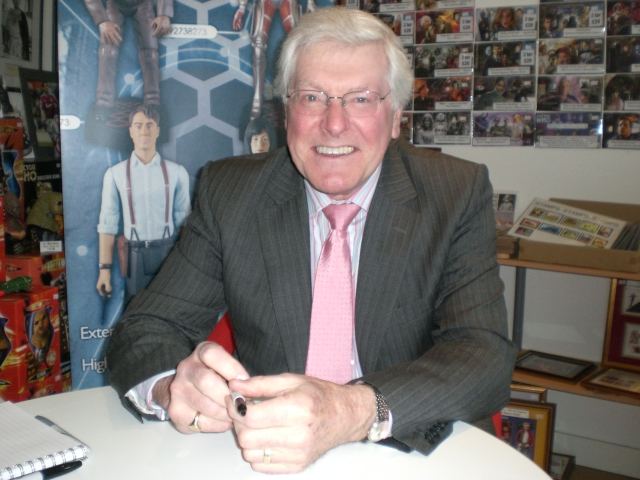 Peter Purves at The Television & Movie Store, Norwich, England on 28th March 2009.